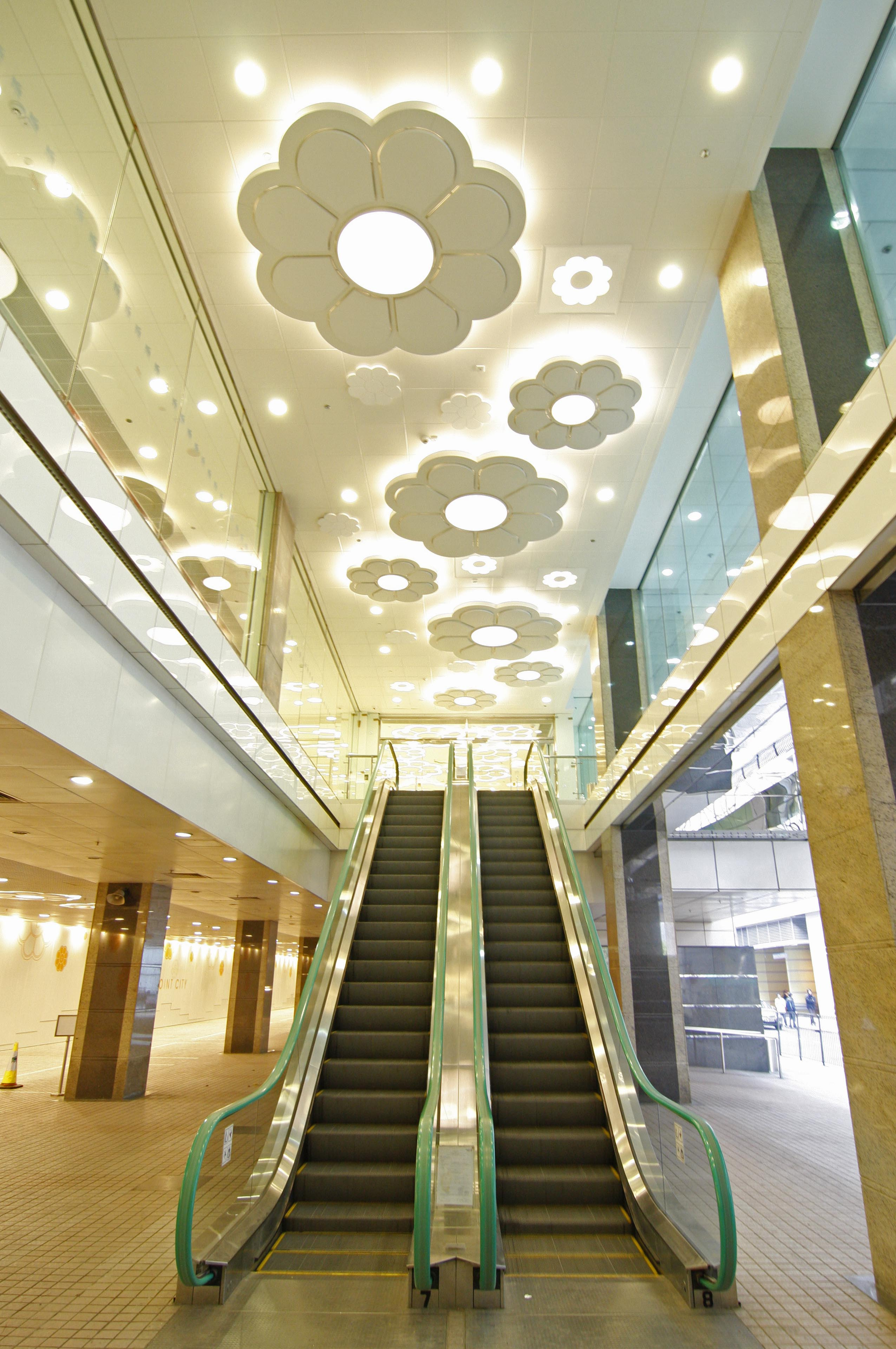 東港城扶手電梯